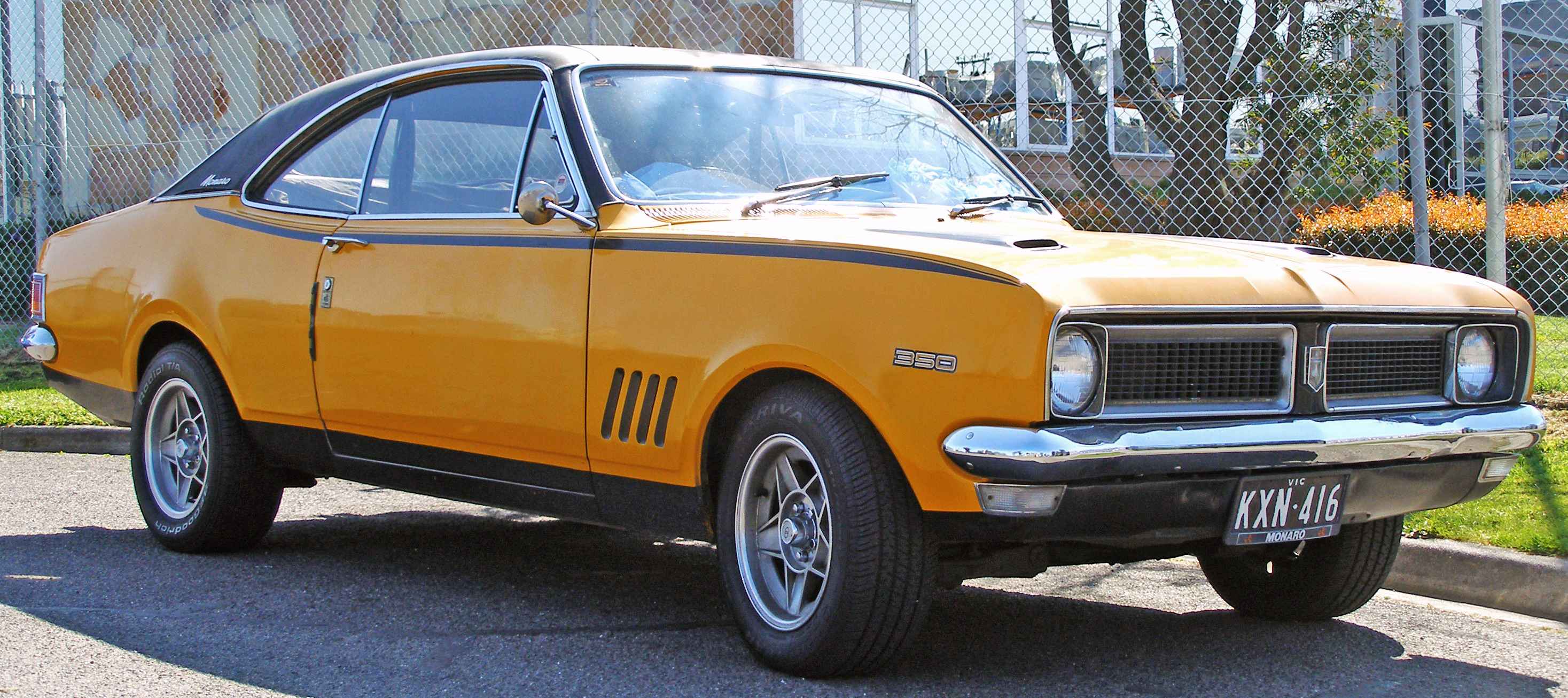 1970–1971 Holden HG Monaro GTS 350 coupe, photographed in Victoria, Australia.